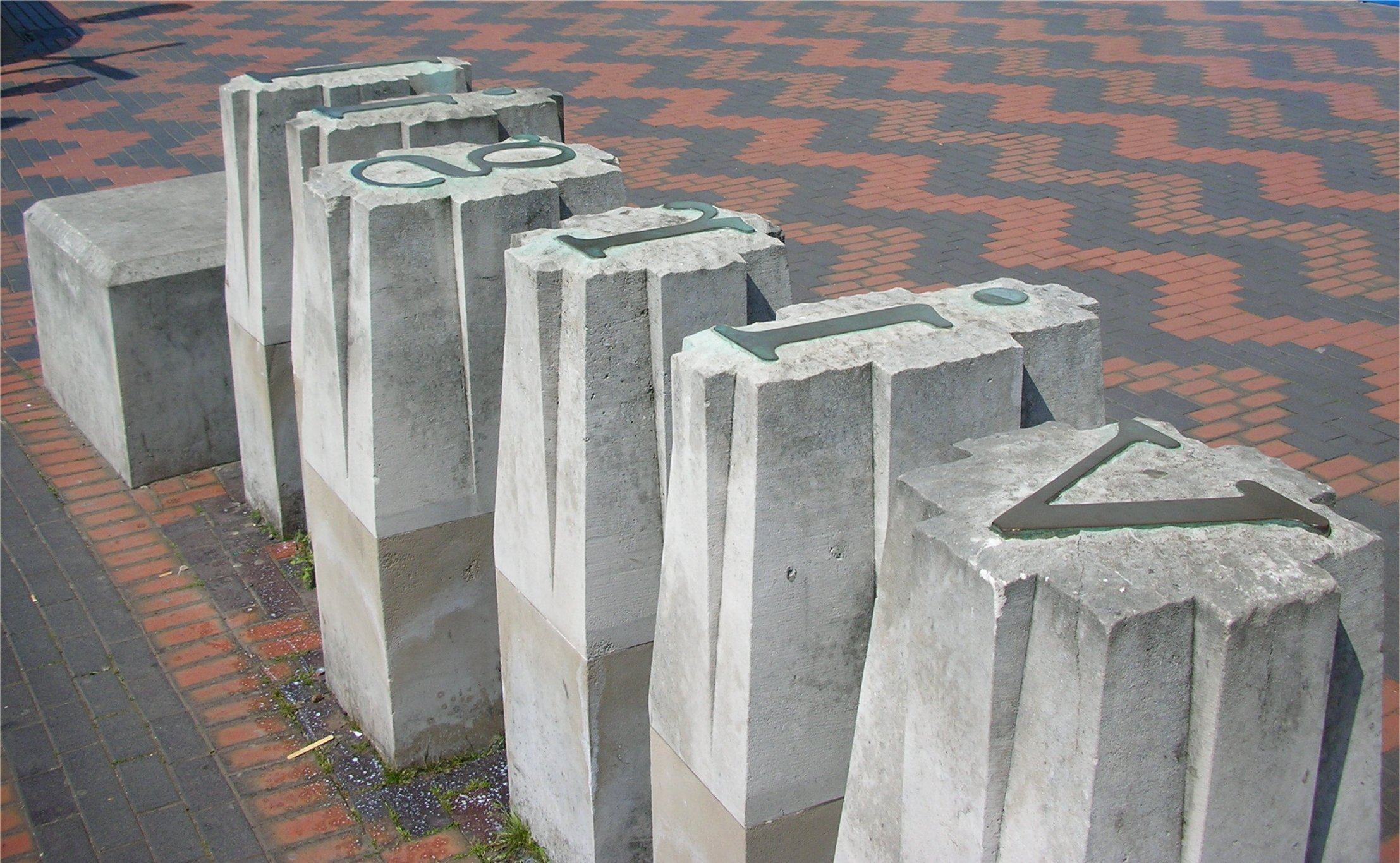 Industry and Genius, 1990, by David Patten, sculpture in Centenary Square, Birmingham, England. A monument to John Baskerville outside Baskerville House which was itself built on Baskerville's home. Photographed 9 June 2006.